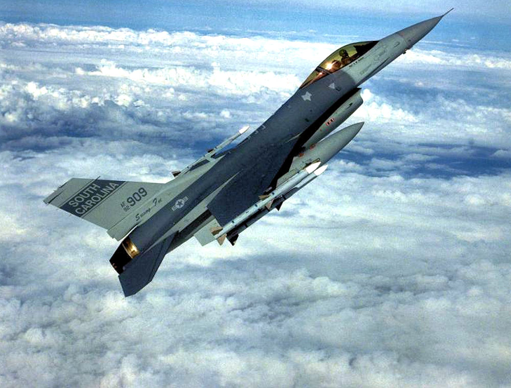 157th Fighter Squadron Lockheed F-16C Block 52P Fighting Falcon 92-3909 equipped with 4x AIM-120 AMRAAM missiles [USAF photo]